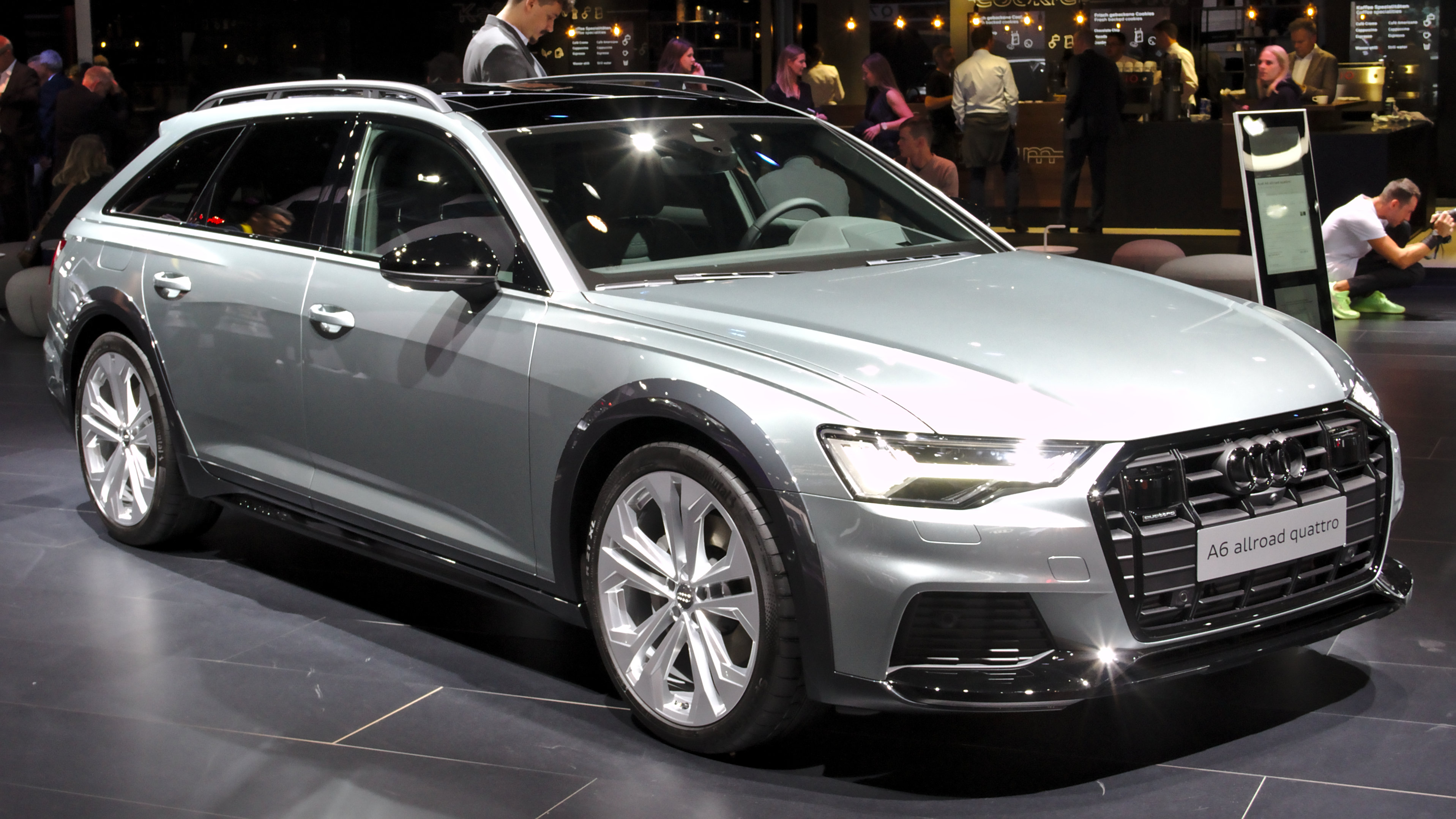 Audi_A6_Allroad_Quattro_C8 at IAA 2019